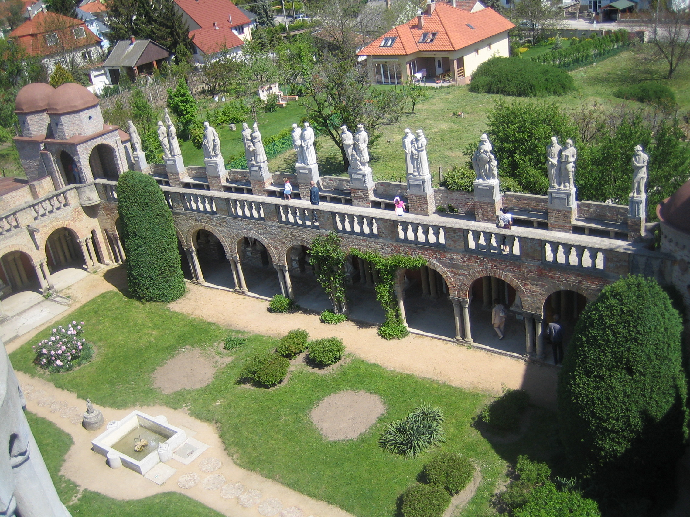 Bory Castle, Székesfehérvár, Hungary